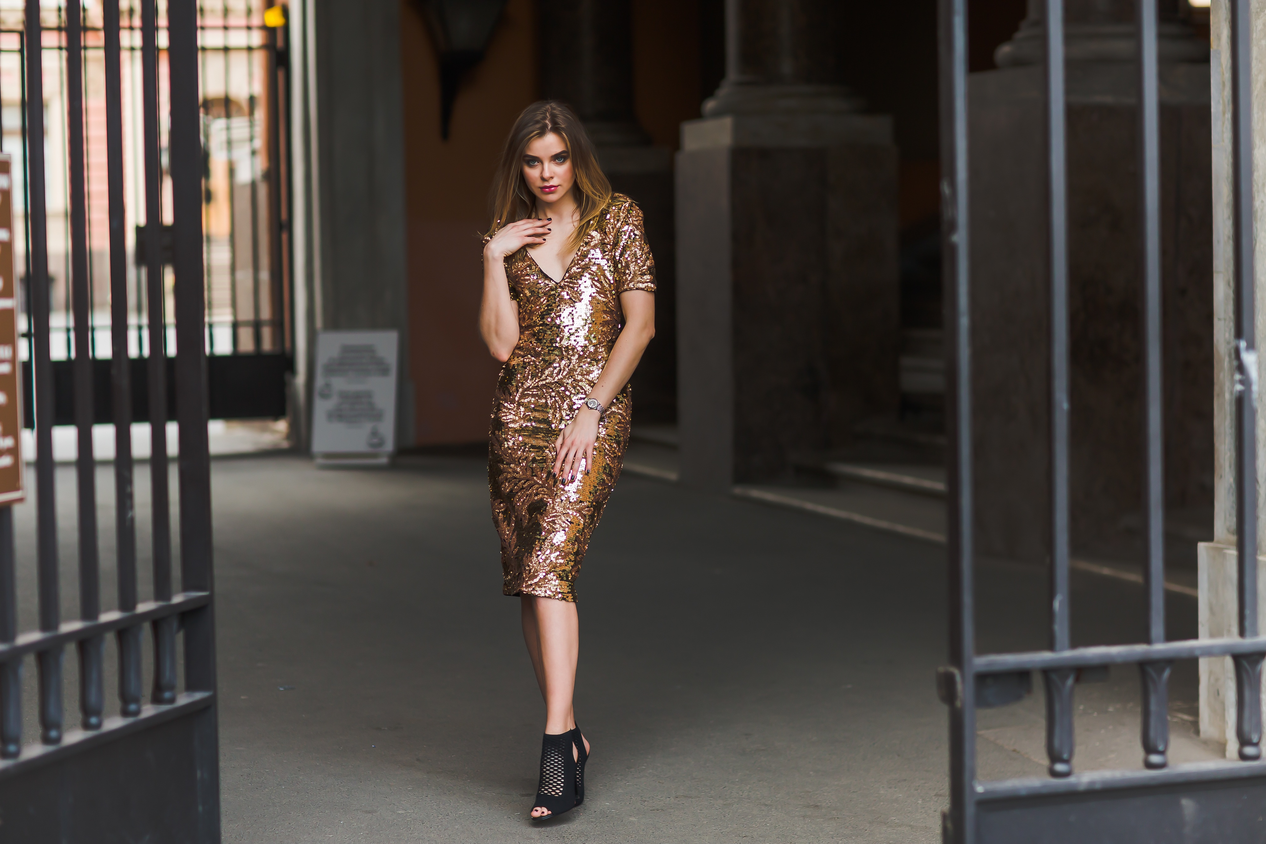 Female fashion model posing in Saint Petersburg